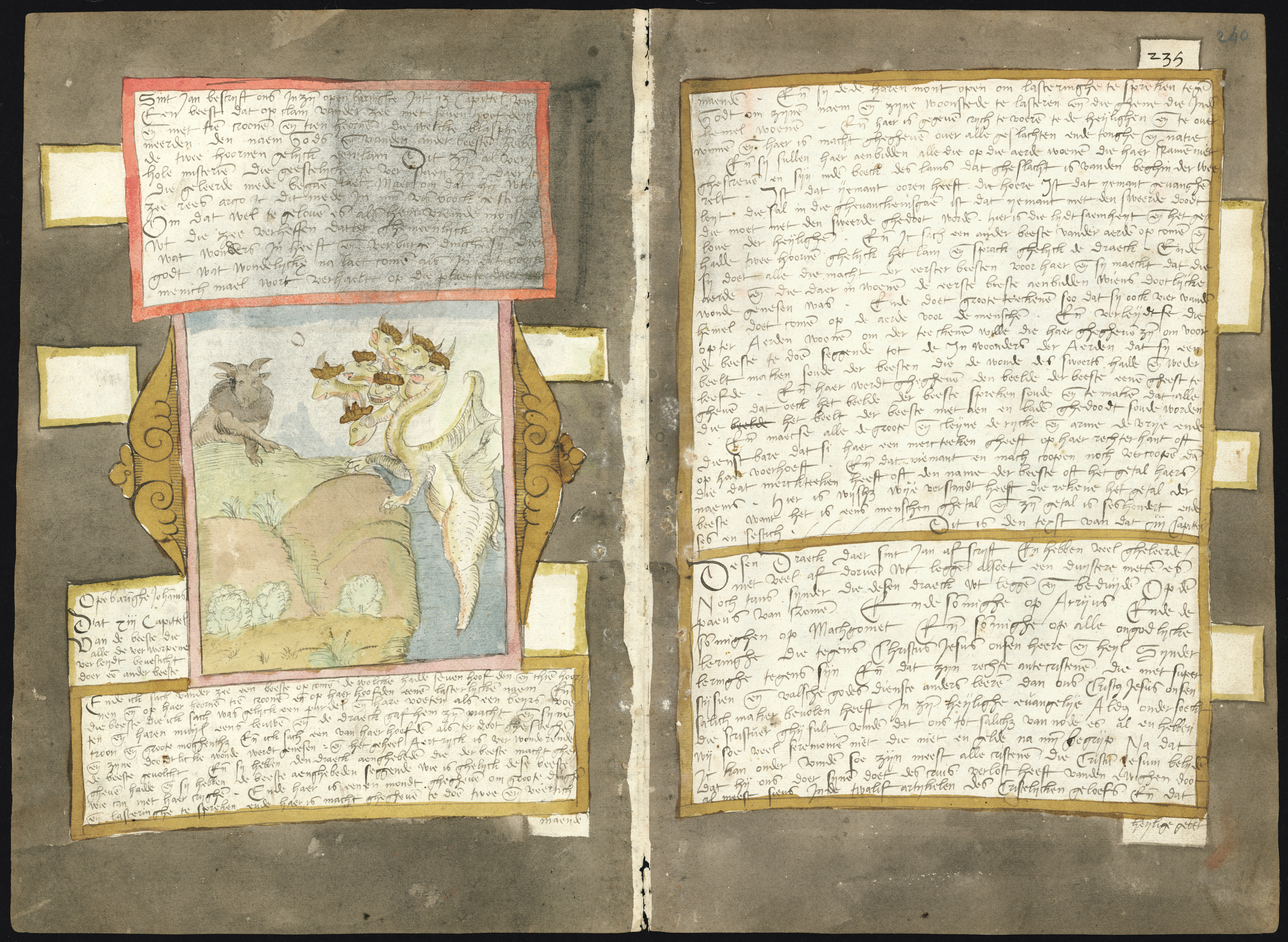 Lefthand side folio 239v and righthand side folio 240r from the Visboeck by Adriaen Coenen